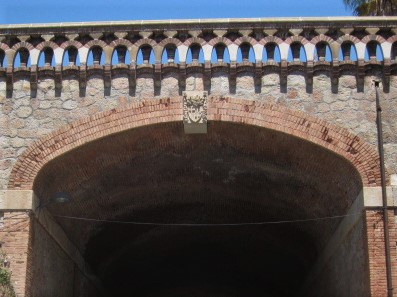 Bridge, Plaça Mons, Barcelona, Spain